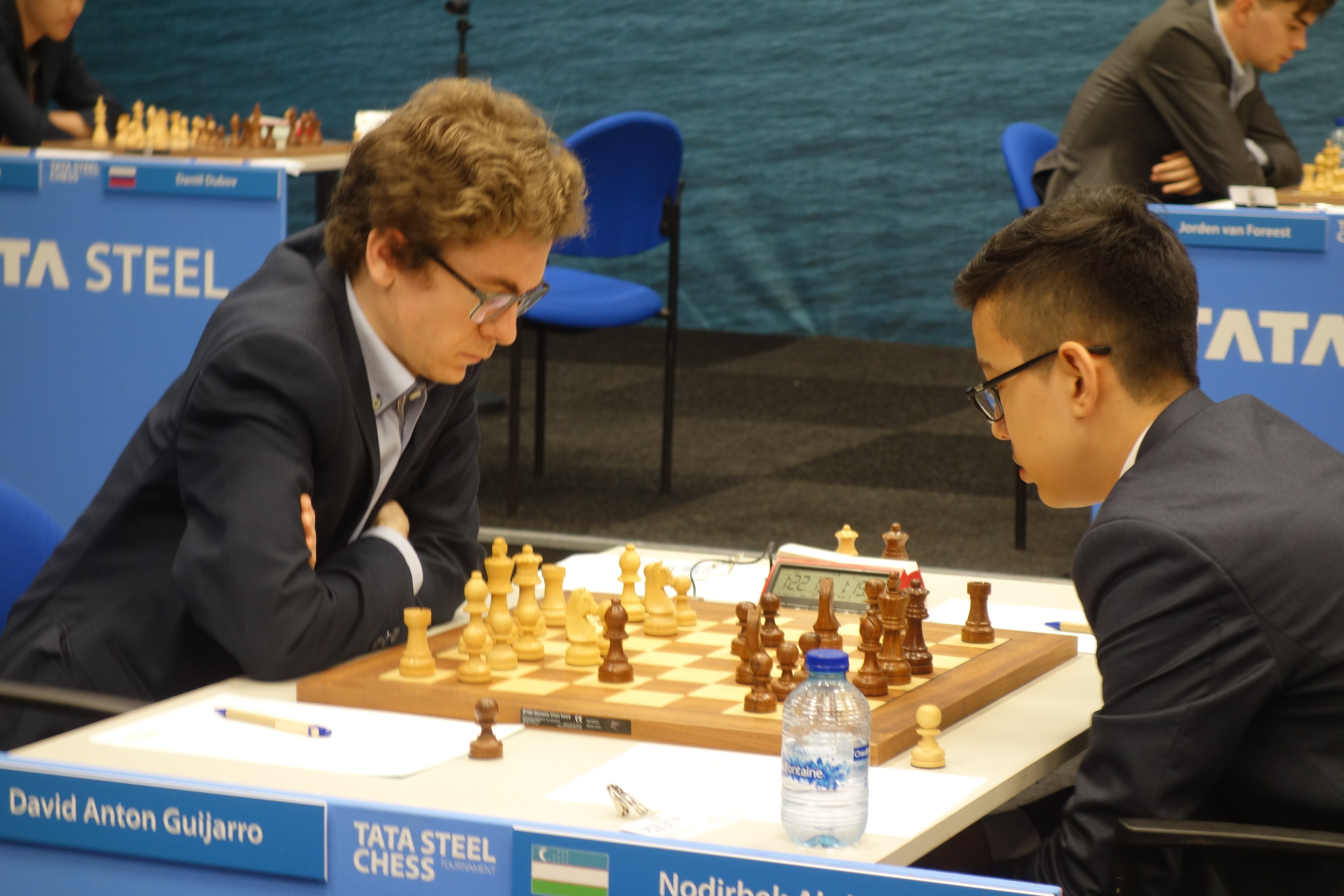 David Guijarro vs Nodirbek Abdusattorov, Tata Steel chess tournament 2020